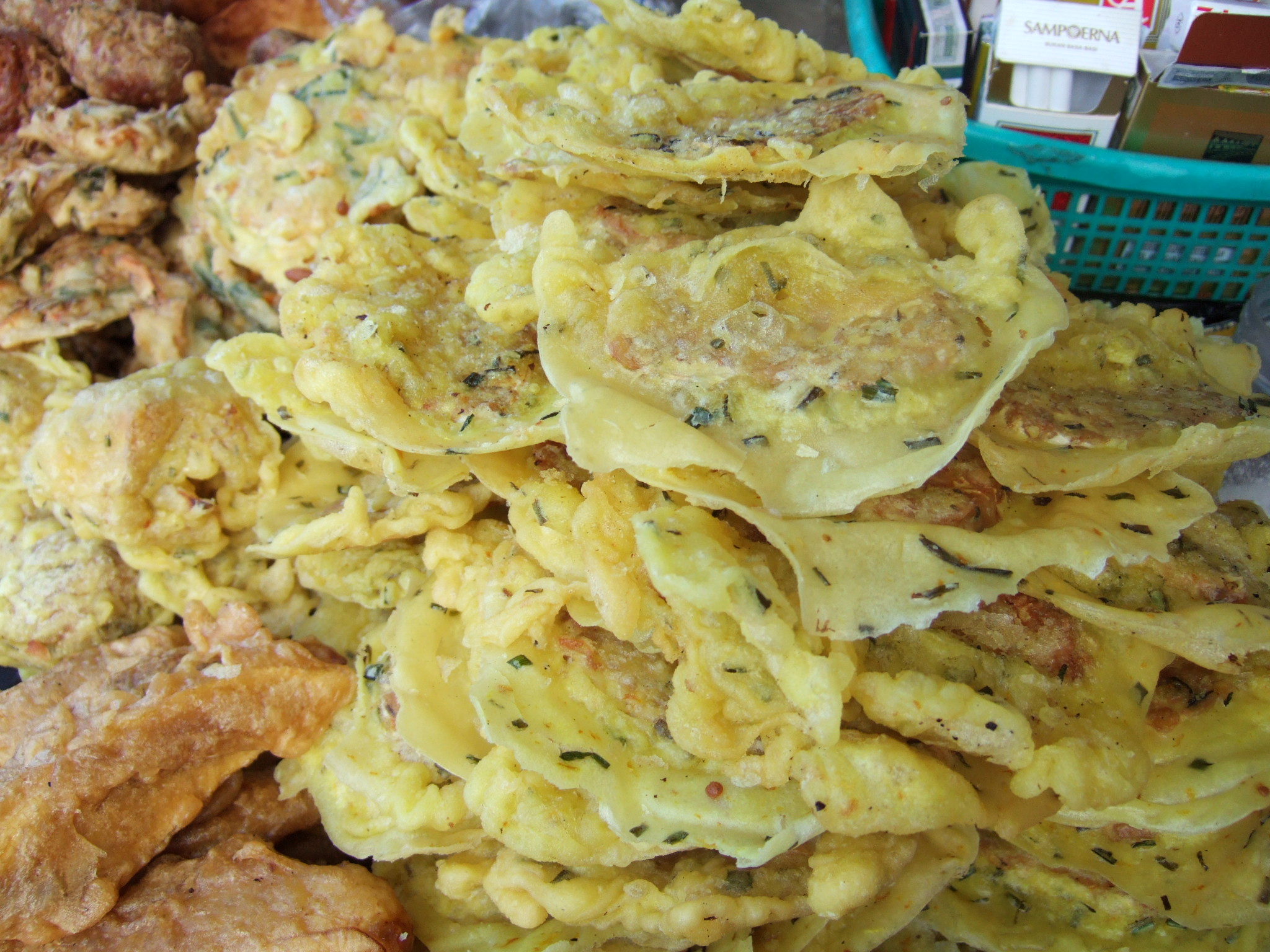 Tempeh fritter